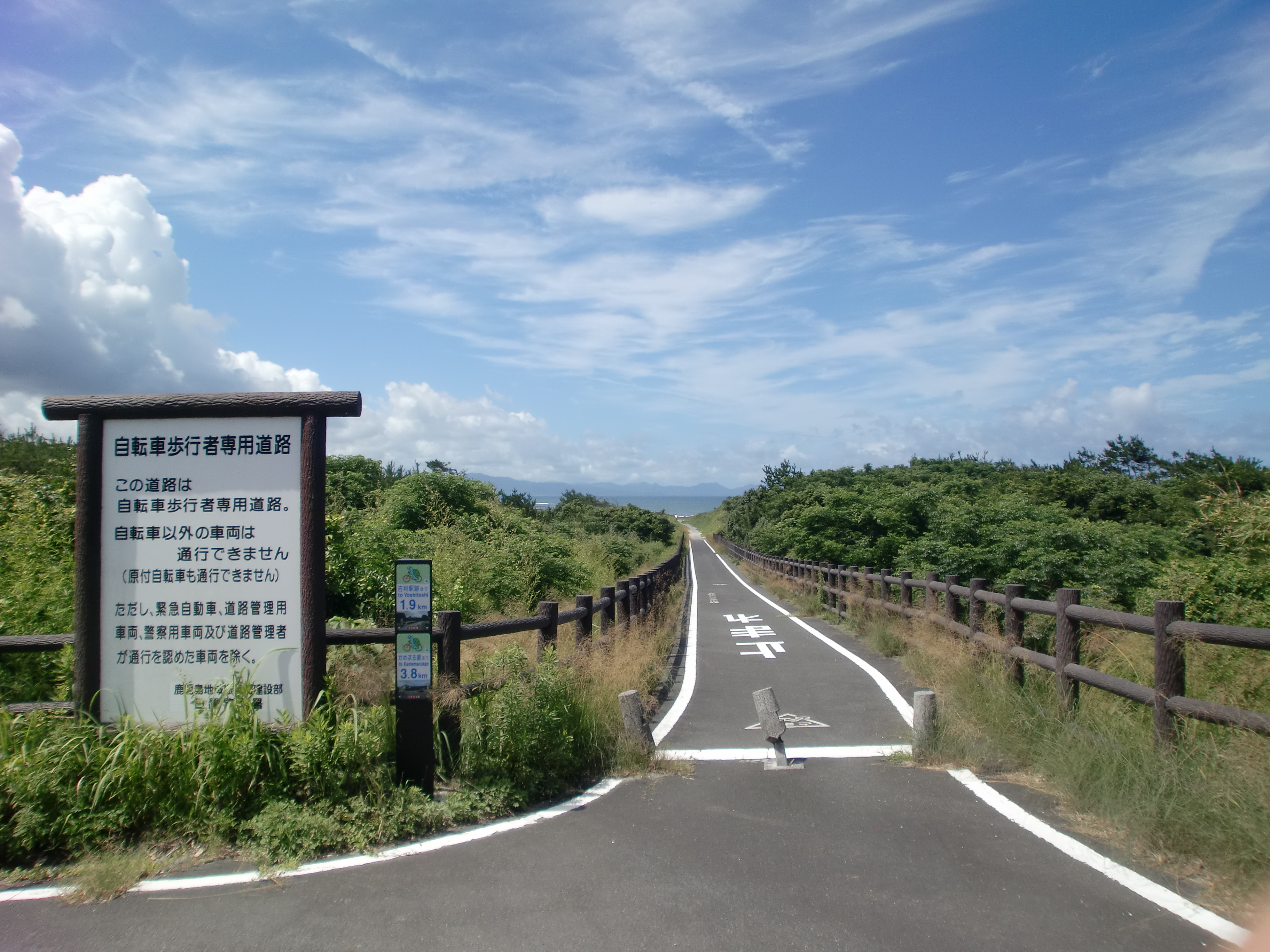 End point of the Fukiagehama Cycling Road in Hioki City, Kagoshima Prefecture, Japan